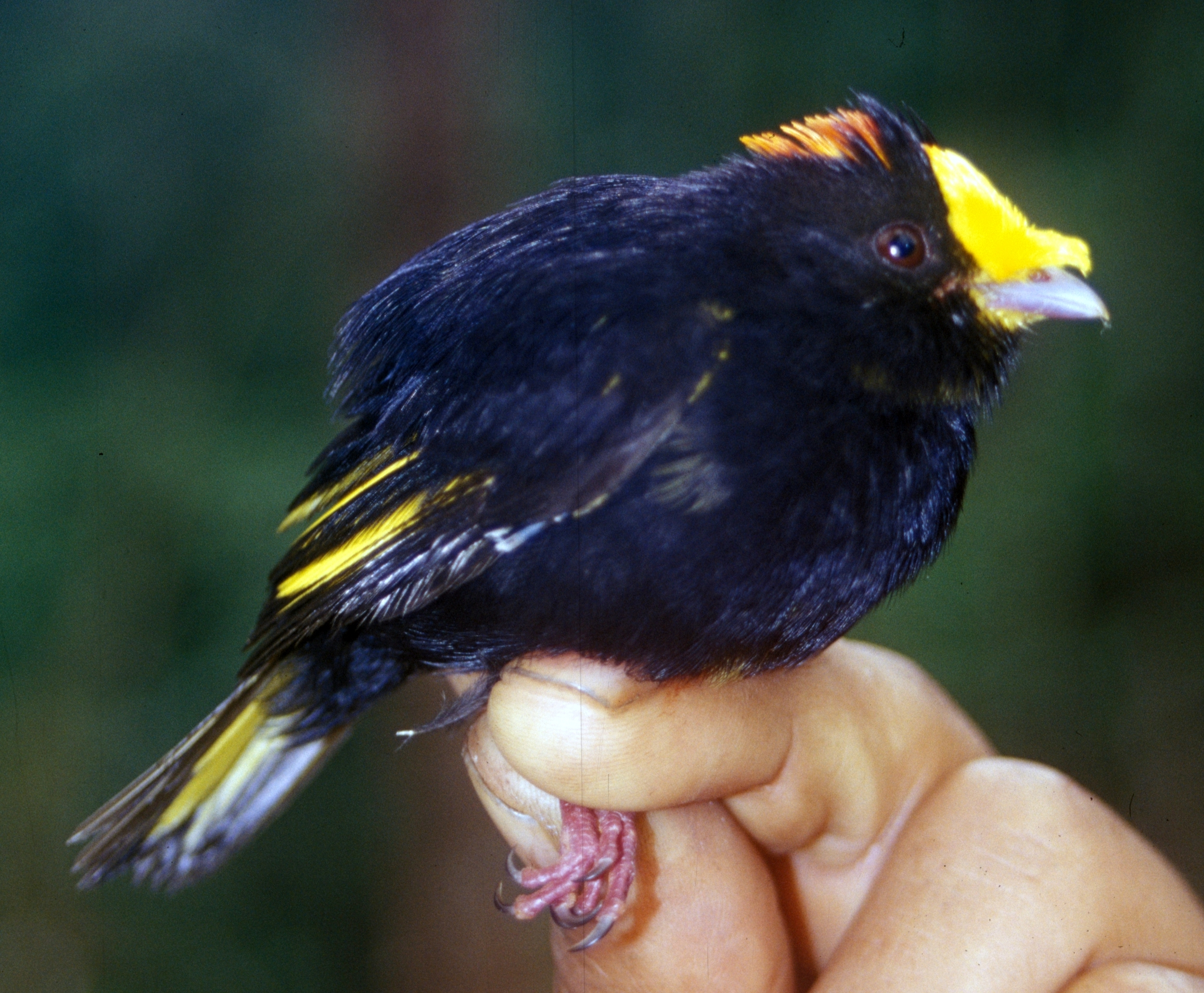 Golden-winged Manakin (Masius chrysopterus) from Ecuador